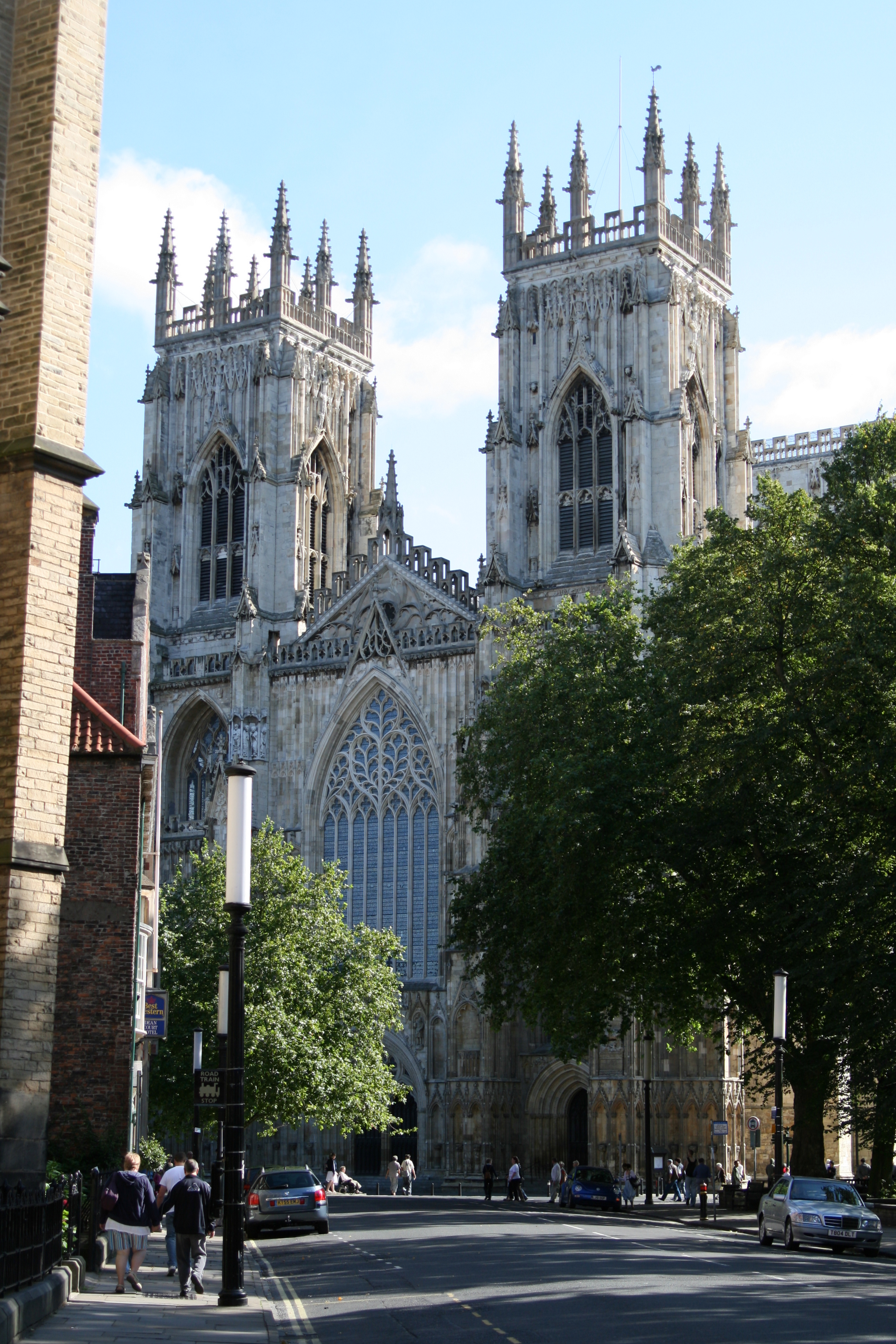 Picture of York Minster Gothic Cathedral, Church House, Ogleforth, York UK, YO1 7JN